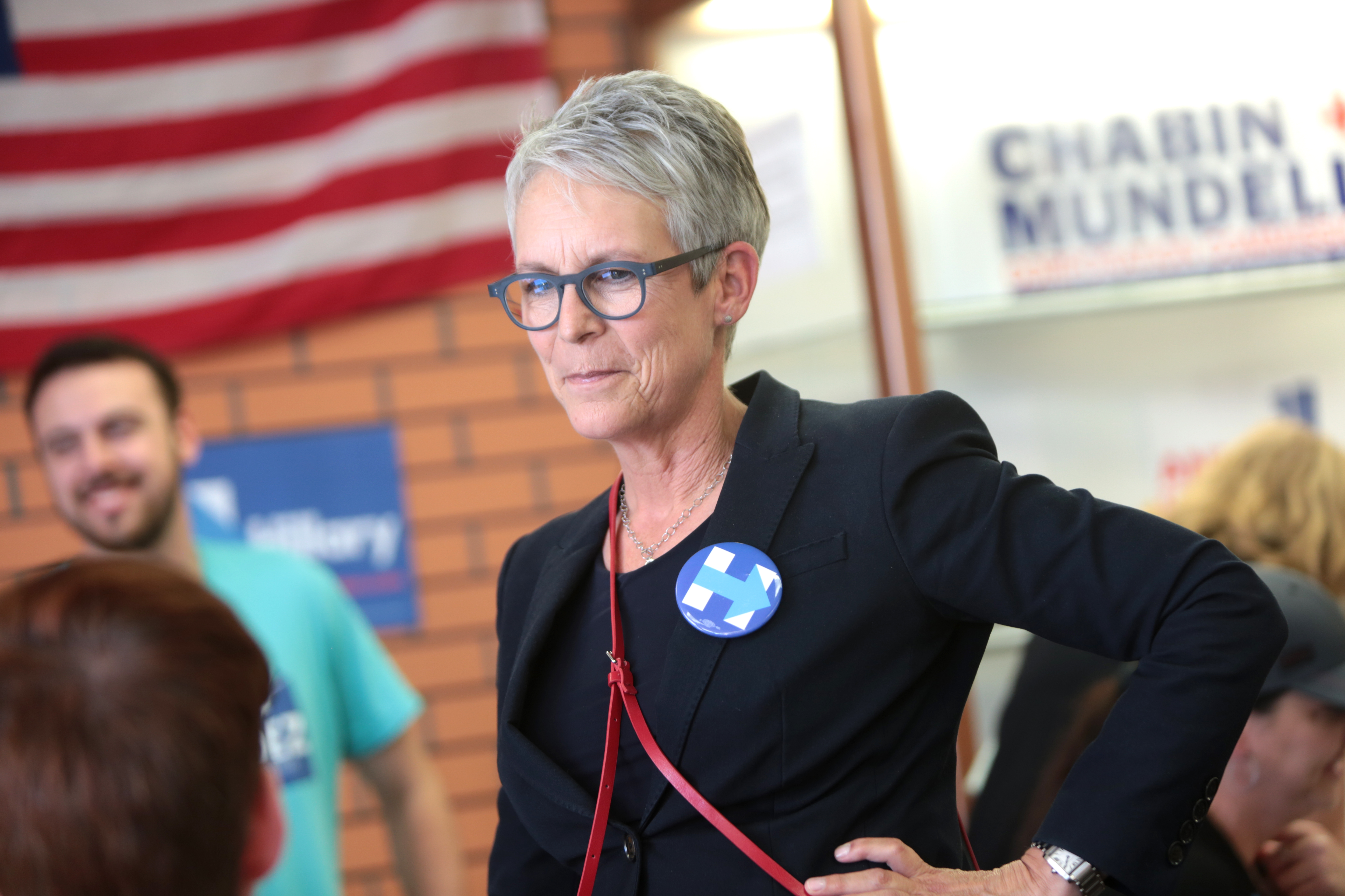 Jamie Lee Curtis speaking with supporters of former Secretary of State Hillary Clinton at a Hillary for America volunteer phone bank at the Tempe Campus Office in Tempe, Arizona.